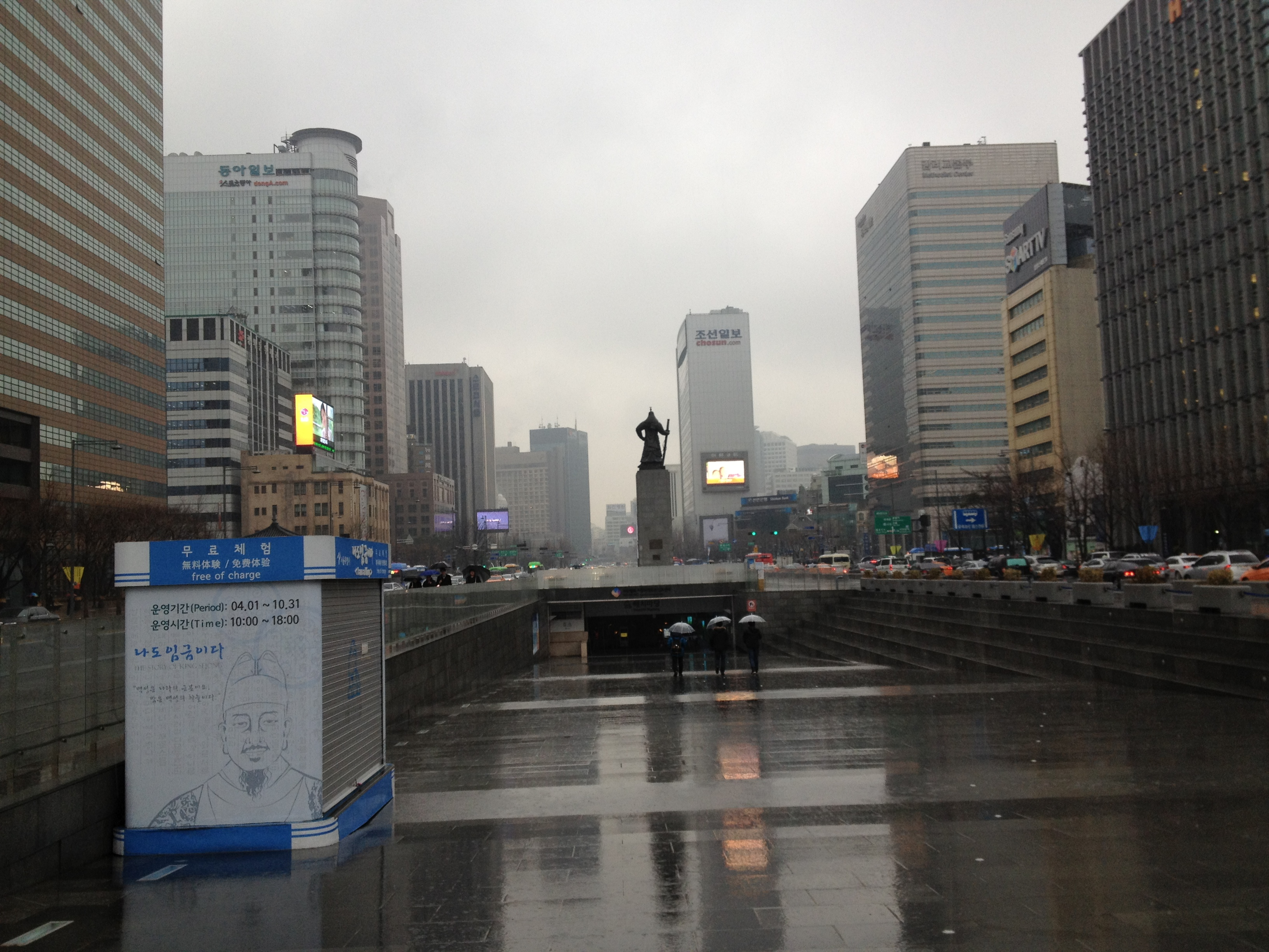 Gwanghwamun square Yi Sun-sin side